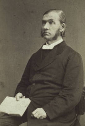 From Wikipedia article "Rudoplh Lechler"